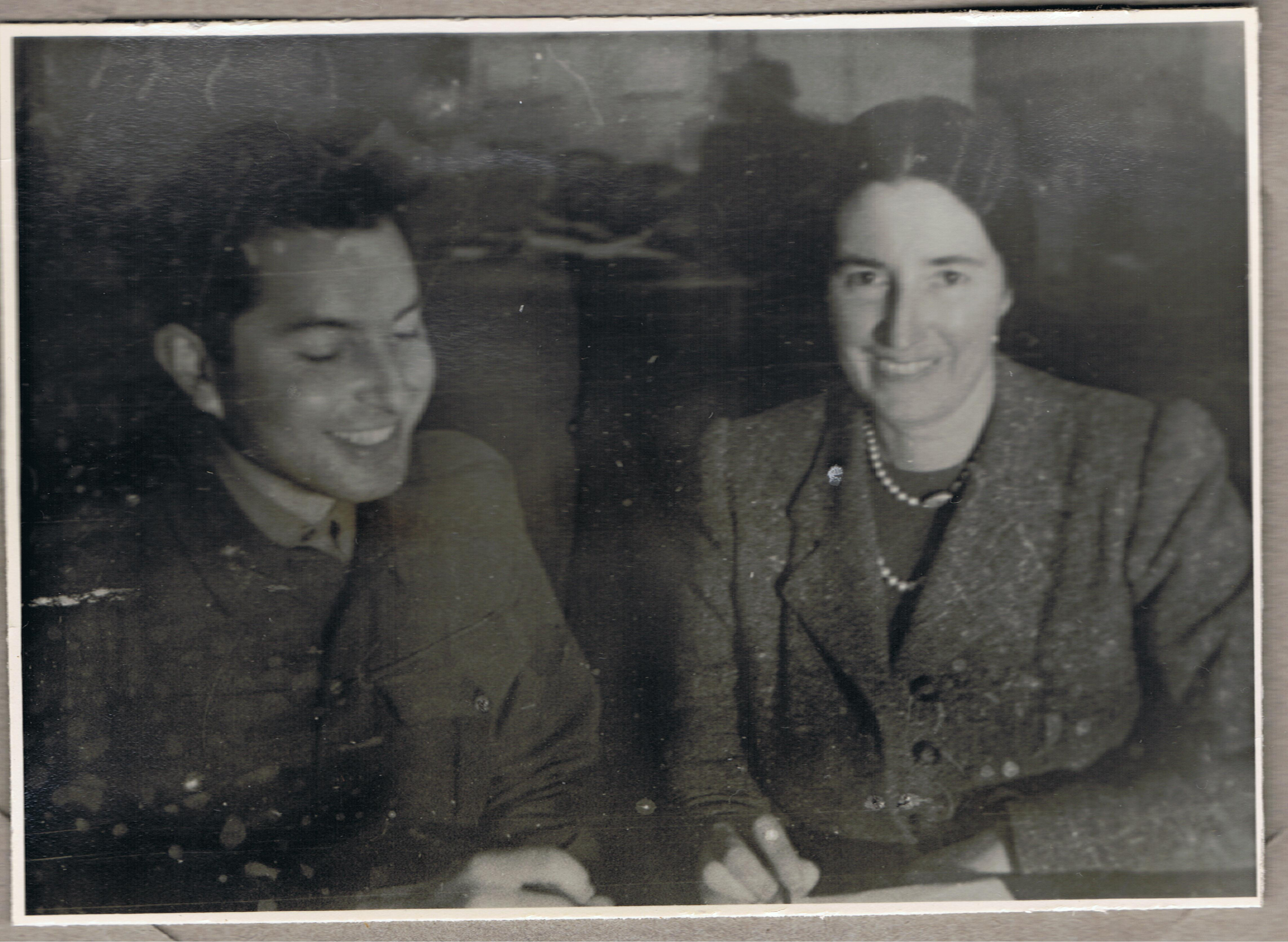 This is a picture, taken in 1944, of the tenor Erich Liffmann and Lady Jacobena Angliss. They are planning a series of concerts. Some of the proceeds of these concerts went to support the Australian war effort. Erich Liffmann was still in the Australian Army and had the rank of a private.